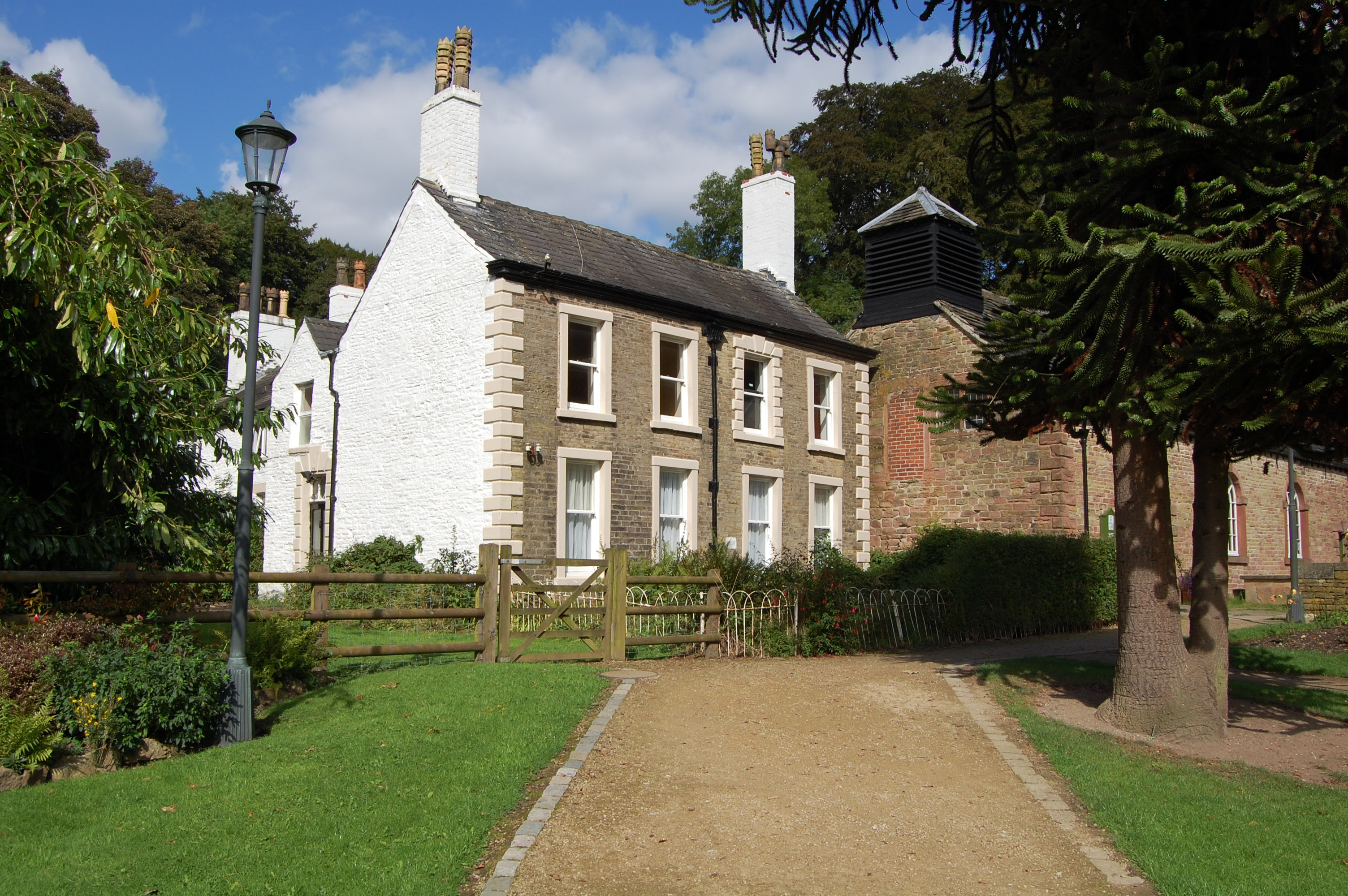 Bredbury and Romiley : Chadkirk Farm